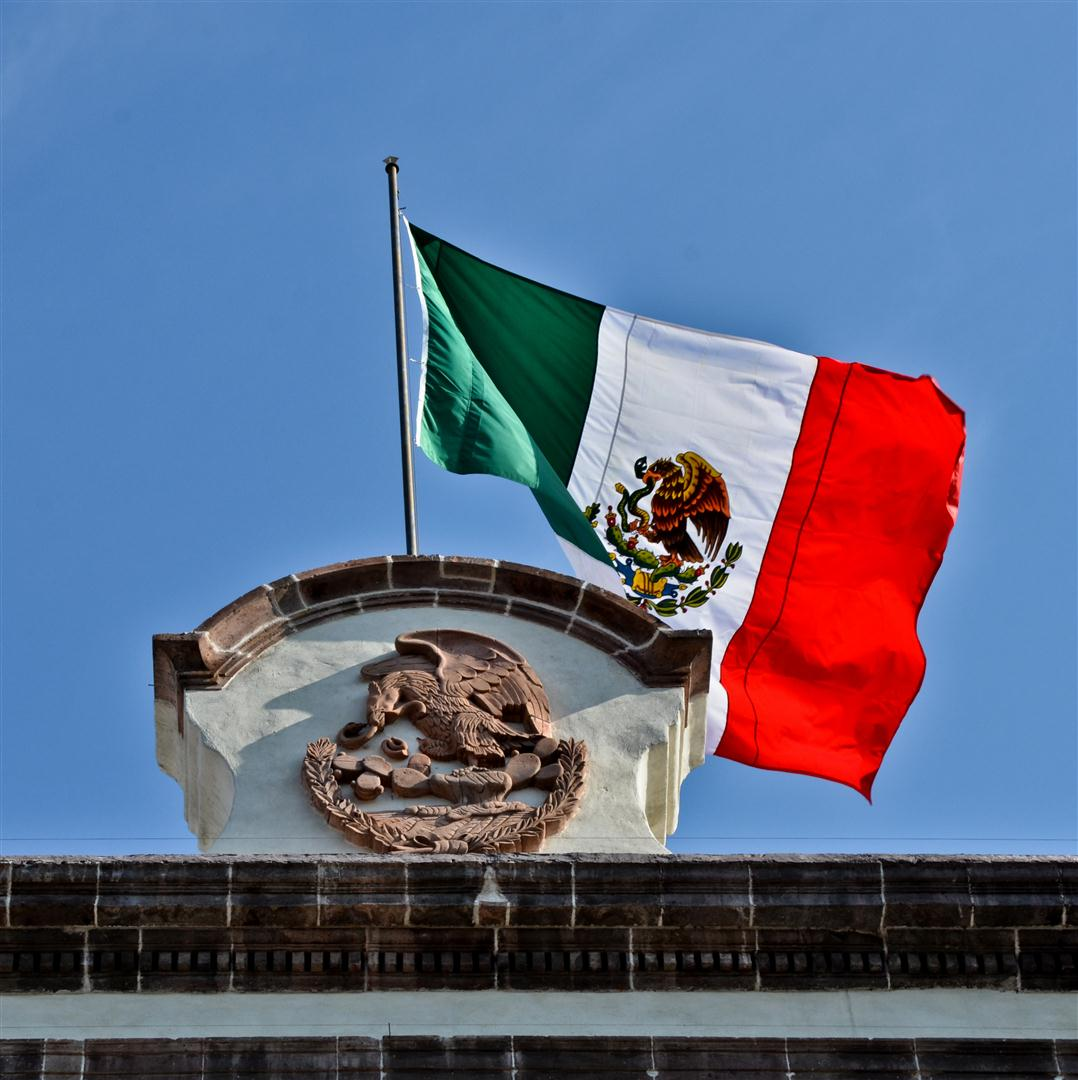 State building in San Miguel de Allende